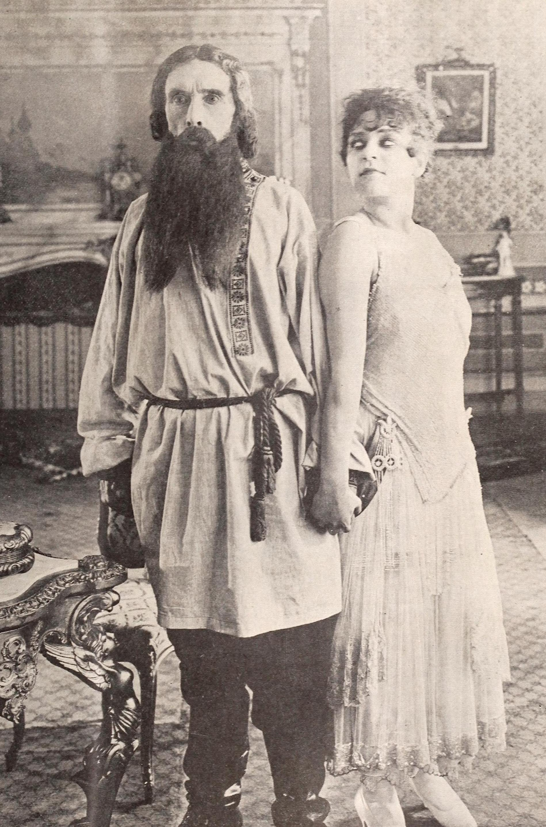 Still from the American film The Fall of the Romanoffs (1917) with Edward Connelly and Ketty Galanta, on page 5 of the March 30, 1918 Exhibitors Herald.